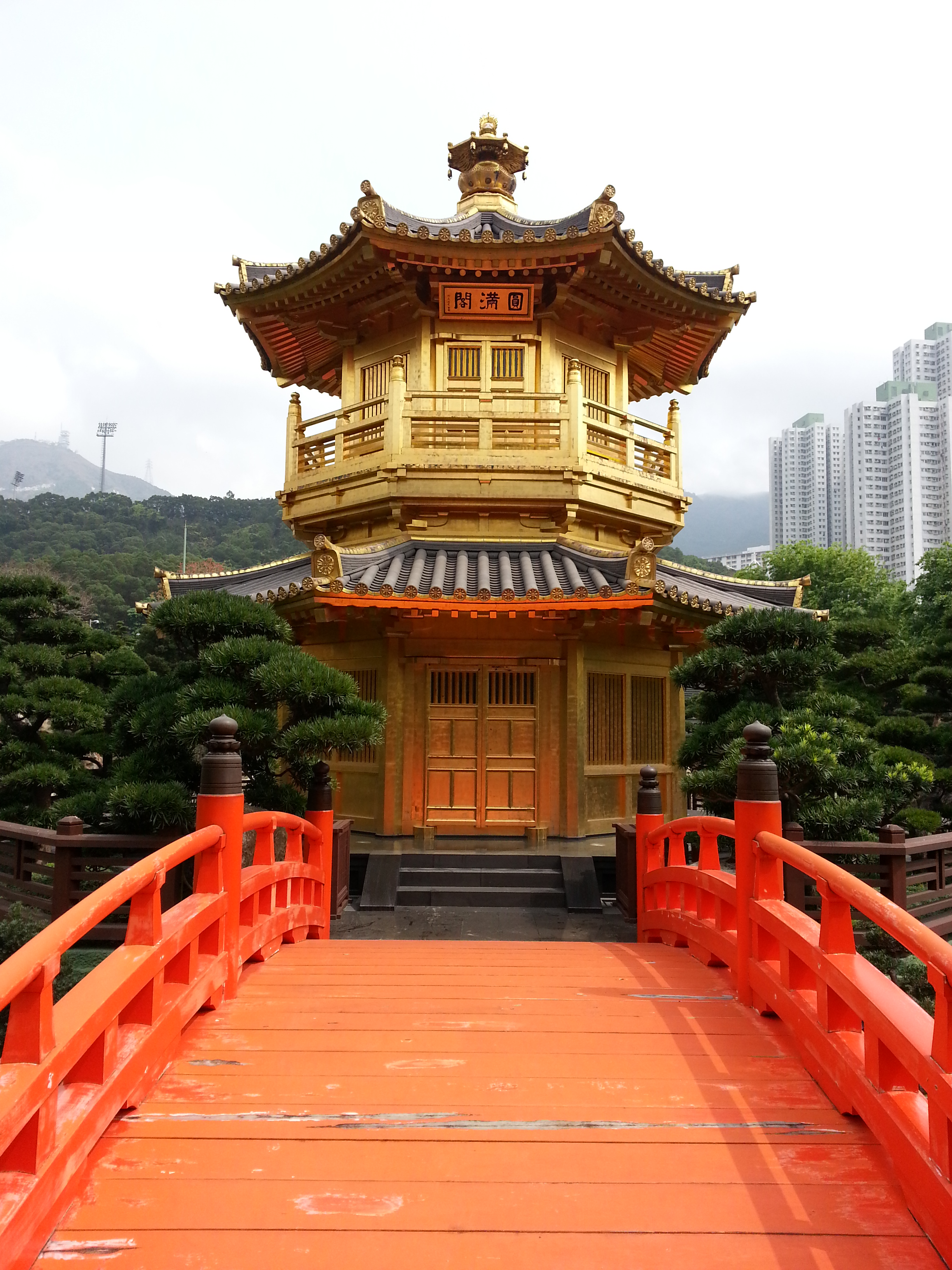 The Pavilion of Absolute Perfection at Nan Lian Garden, Hong Kong.